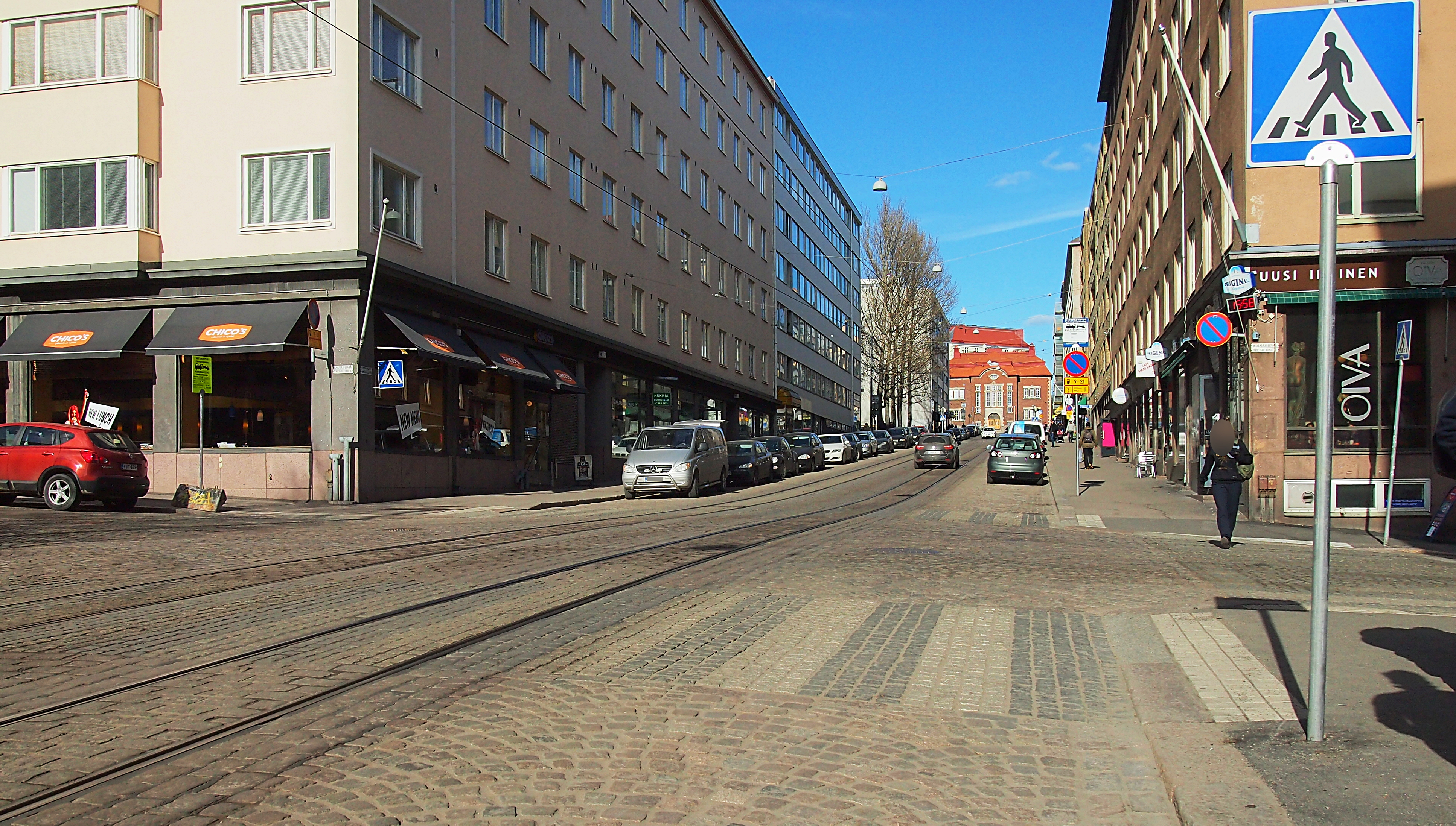 The street Porthaninkatu in Kallio, Helsinki, Finland. Northbound view.